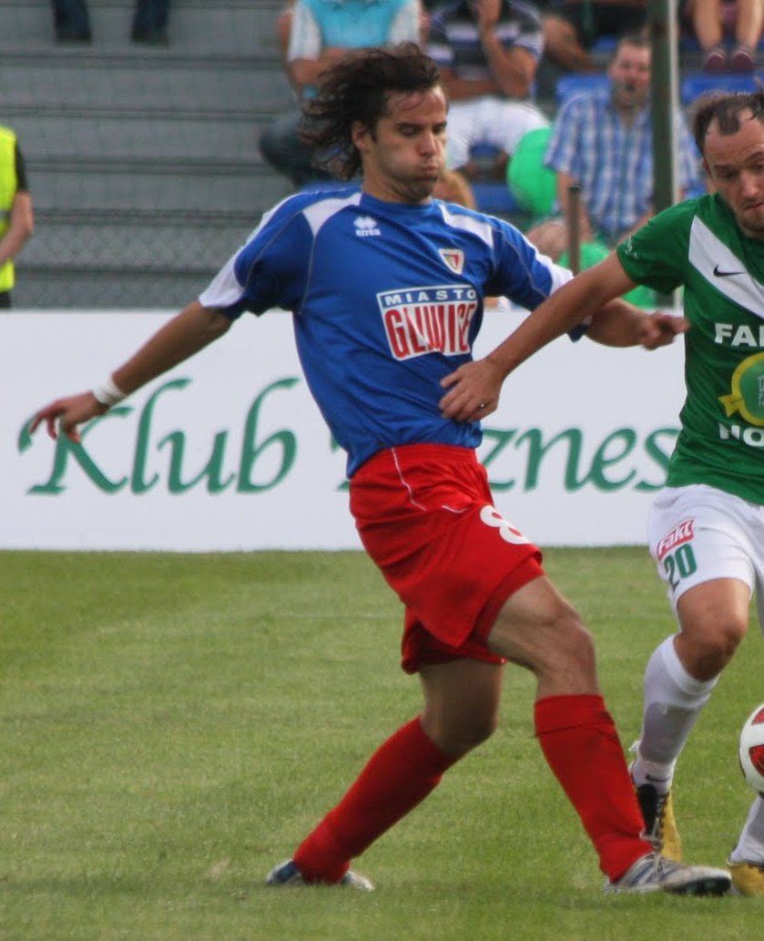 Slovak association football player Rudolf Urban.